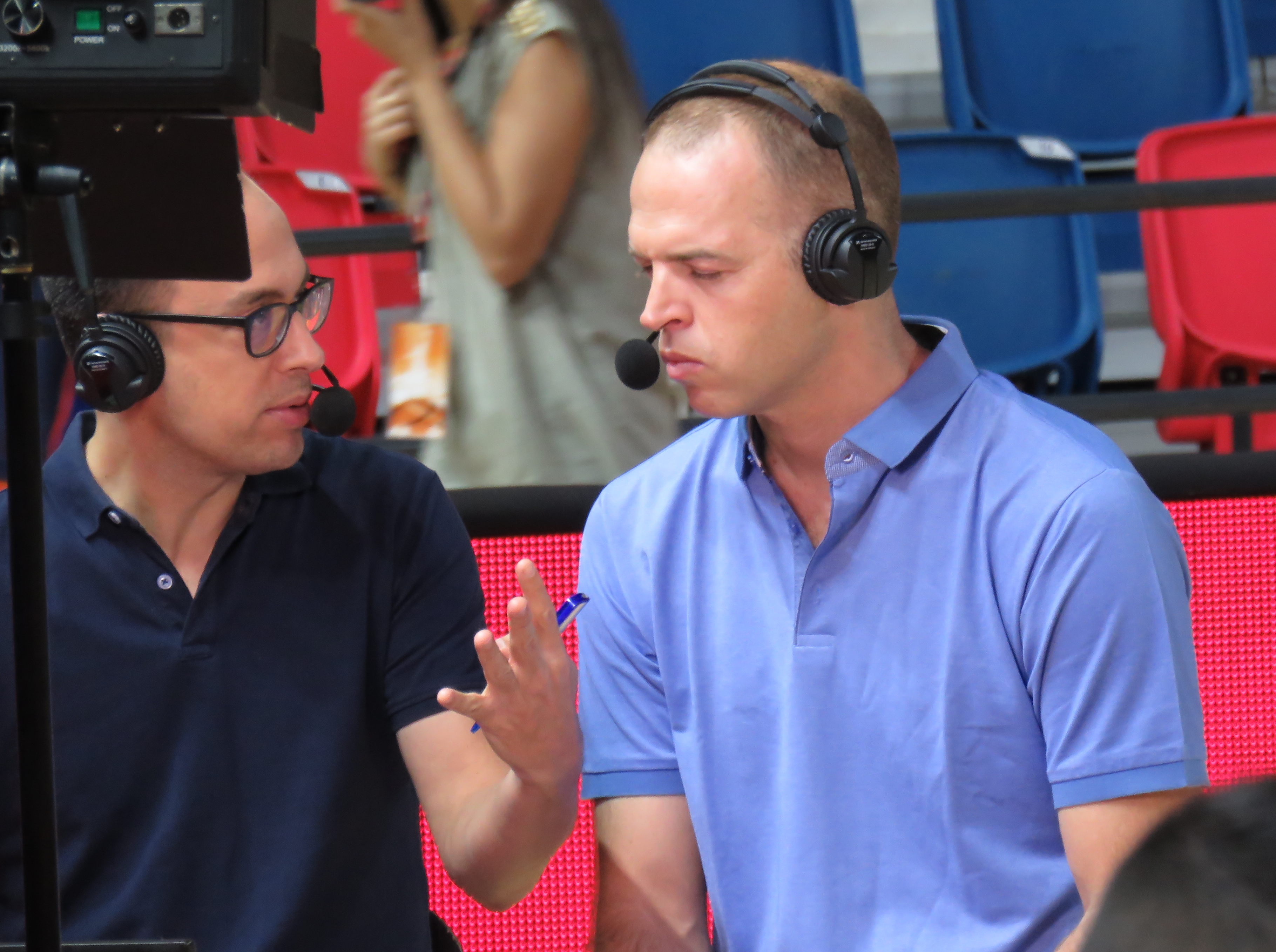 Maccabi Rishon LeZion vs. Maccabi Tel Aviv B.C., 26 September, 2015